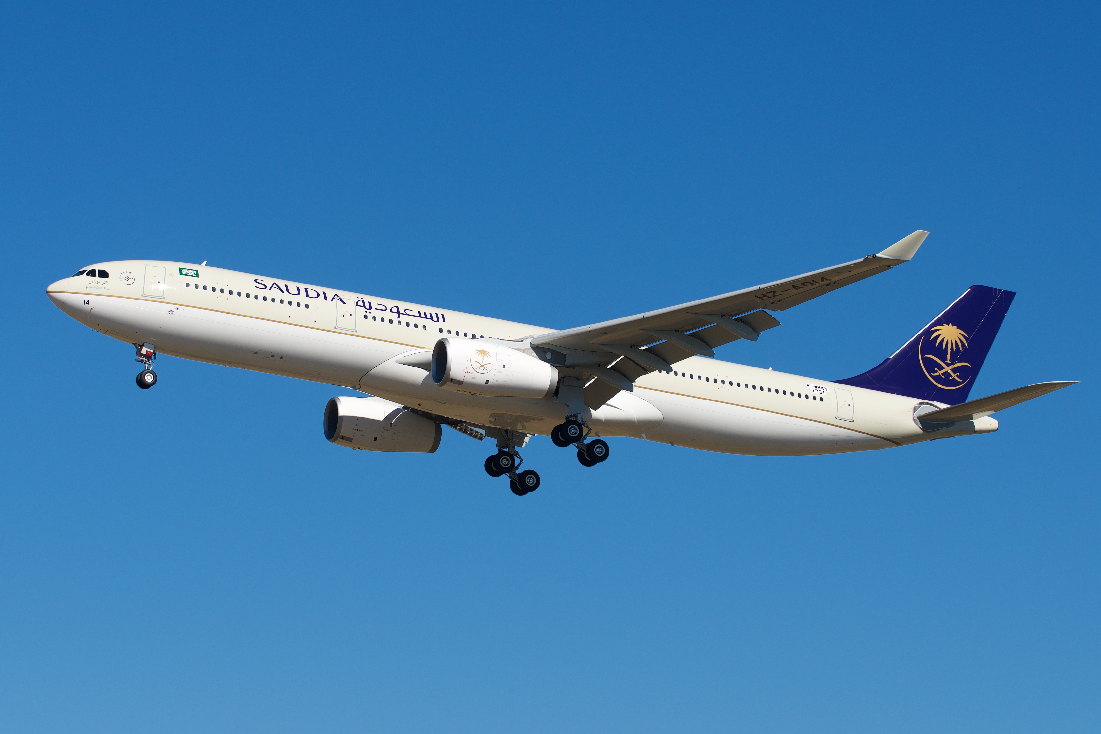 Returning from a test flight, Toulouse.